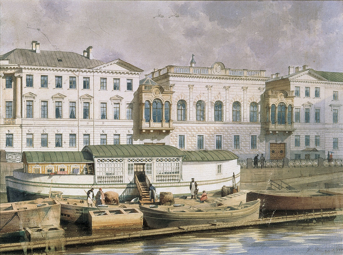 Mansion of G.G.Kushelev (in some sources wrongly attributed as "The Palace of L.A.Naryshkin".